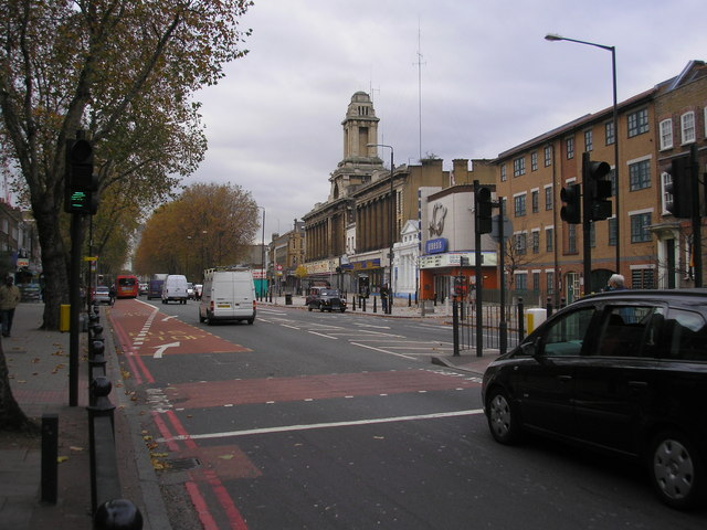 Mile End Road, East London Looking westwards from the junction with Stepney Green. The former Empire Music Hall, now sadly almost derelict, is seen on the right.